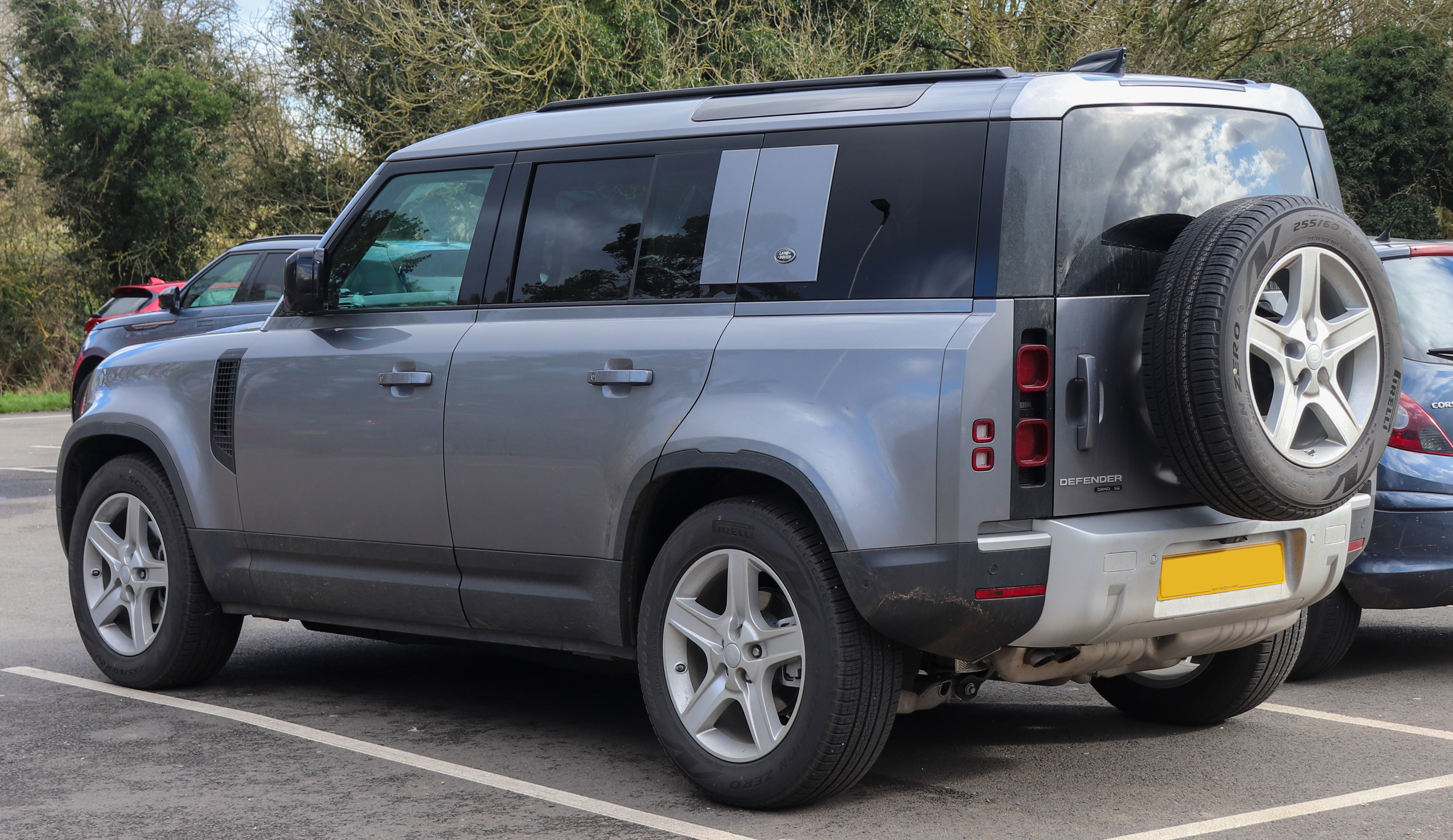 2020 Land Rover Defender SE D240 Automatic 2.0 Rear Taken in Leamington Spa